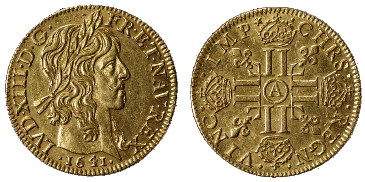 Gold coin "Louis" with french king Louis XIII